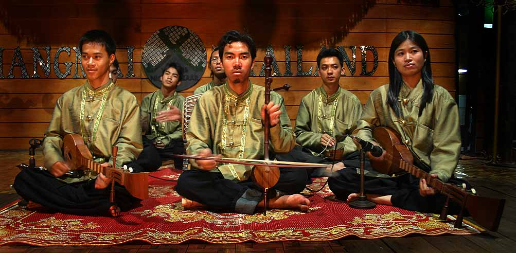 Musicians in Thailand